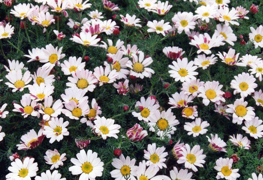 Anacyclus depressus (=Anacyclus pyrethrum)